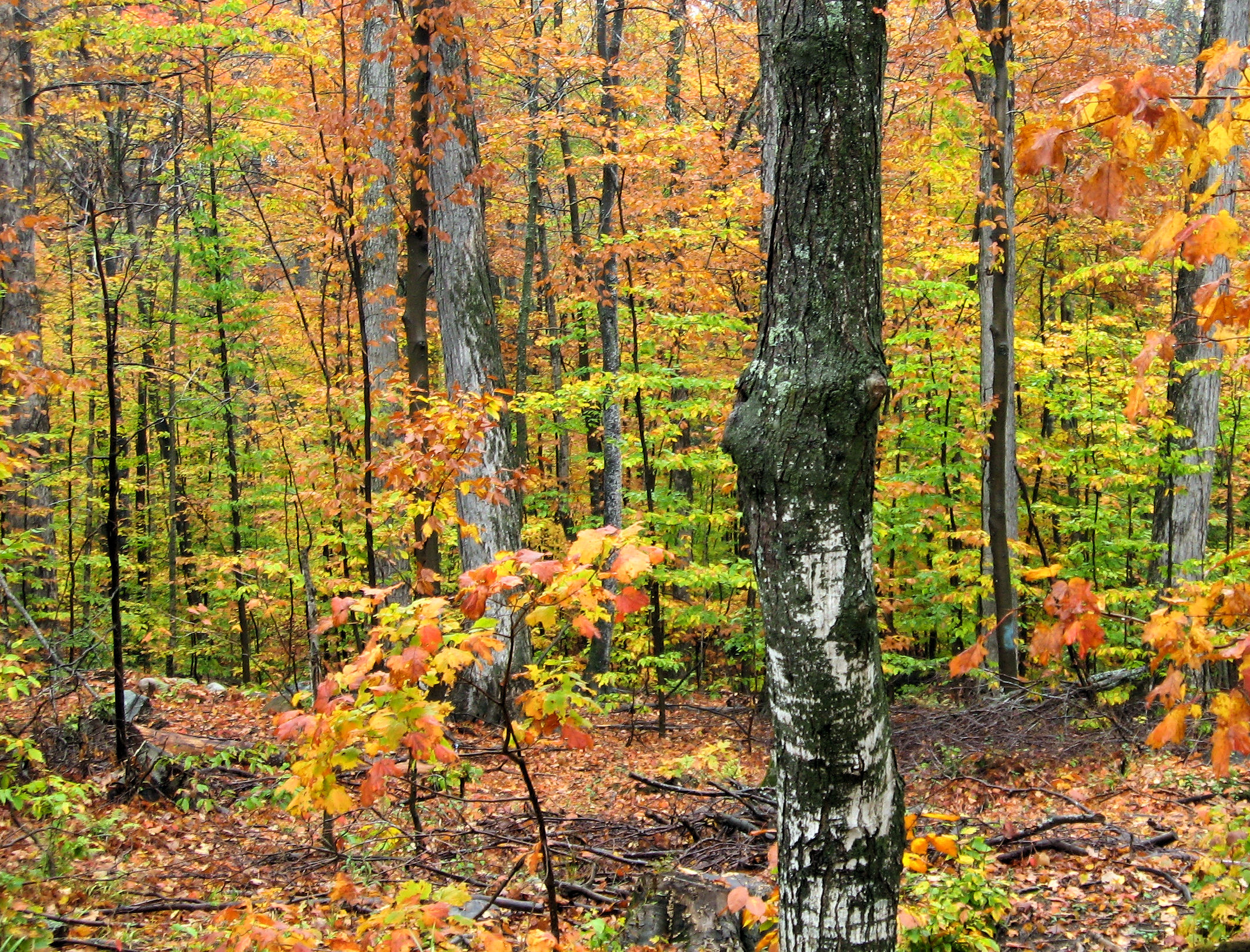 Fall near Tahquamenon Falls, Michigan